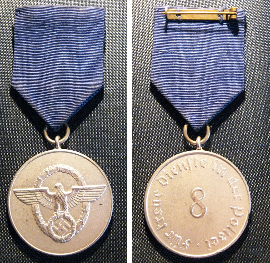 German Police Long Service Award - 8 Years (Third class)